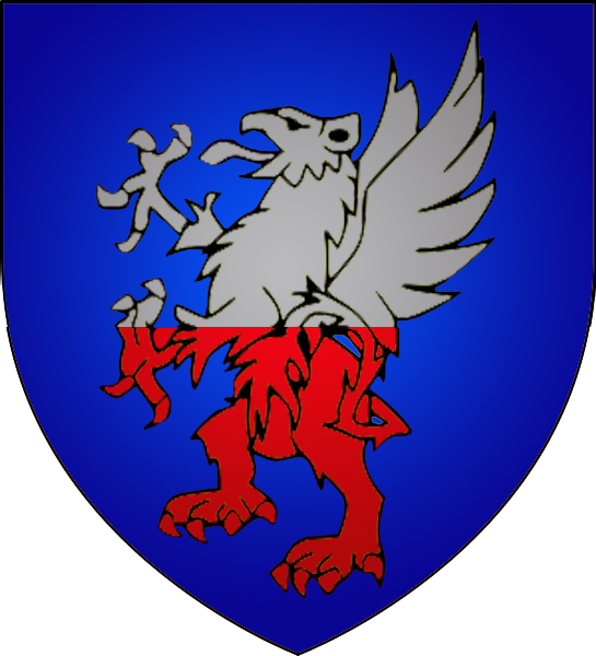 Coat of arms of the municipality of Mertert, Luxembourg